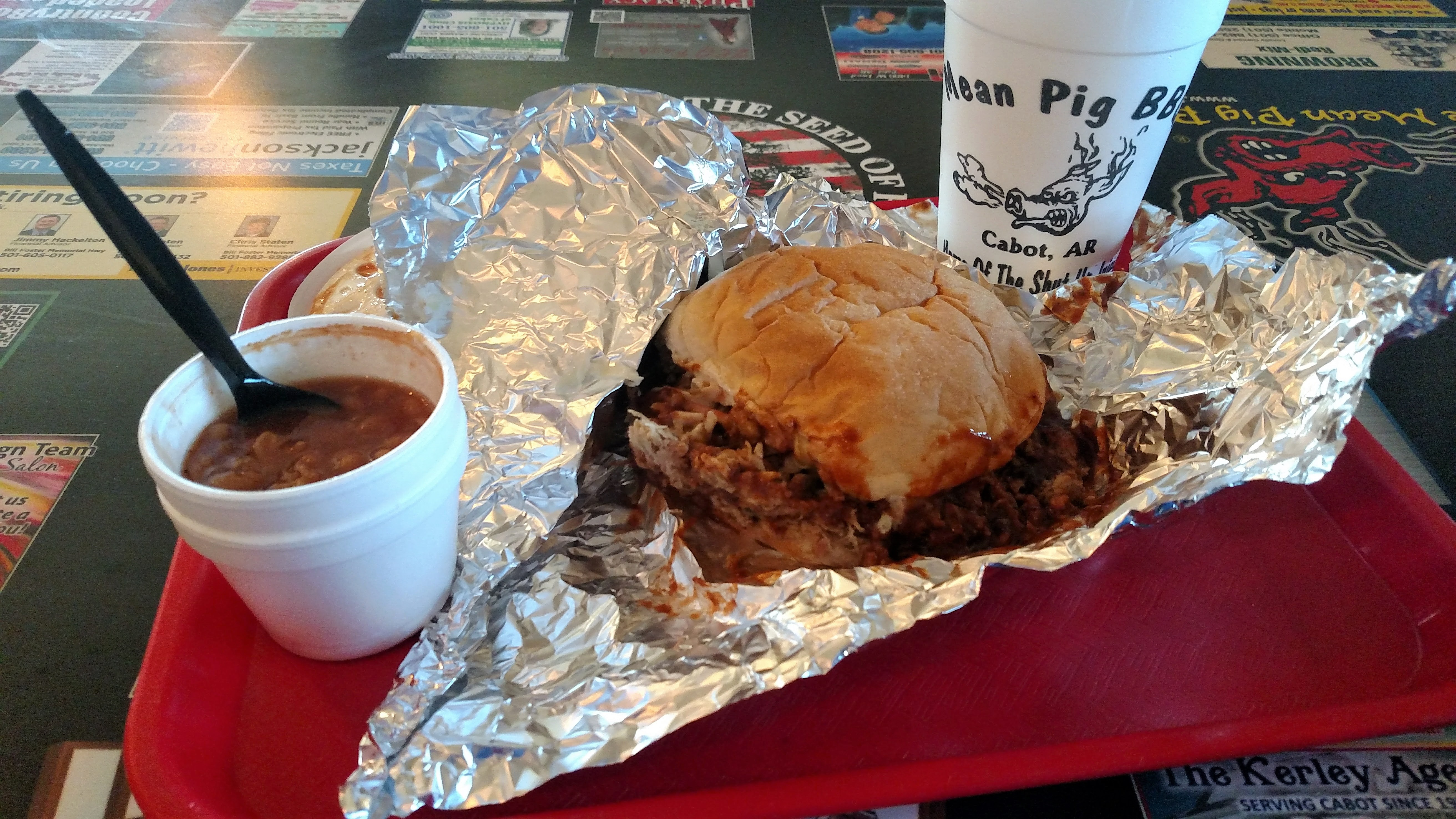 Pulled pork "Memphis style" sandwich with baked beans and unsweet iced tea at Mean Pig BBQ in Cabot, Arkansas